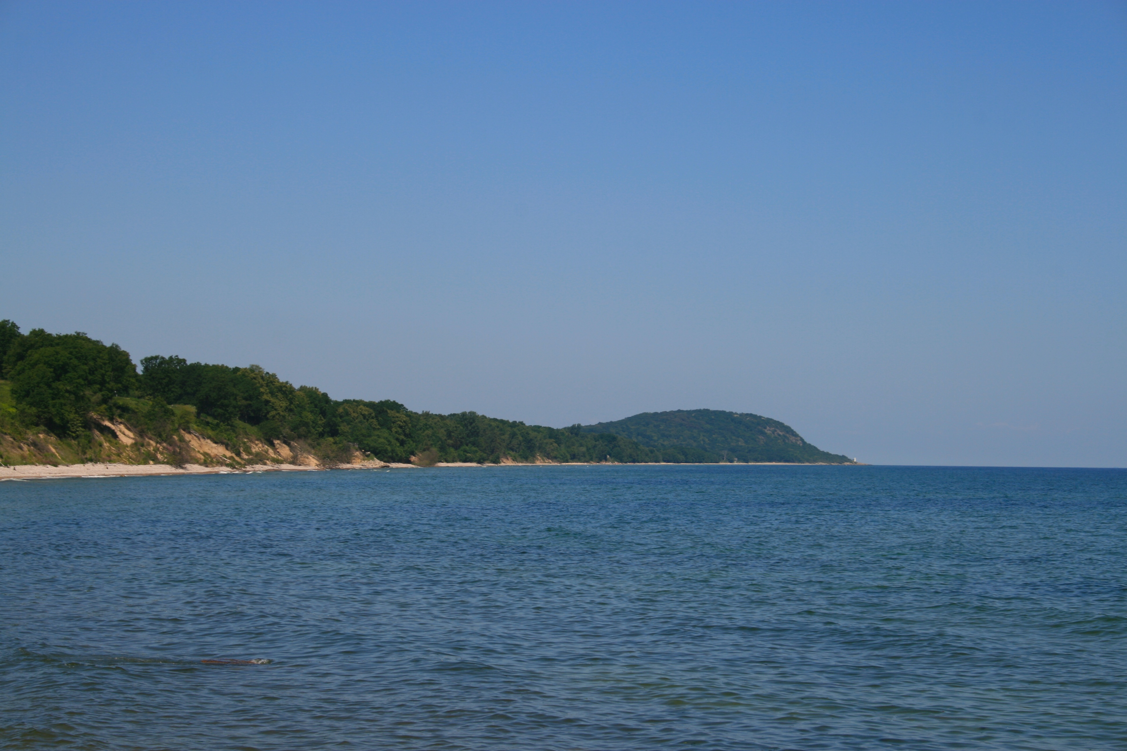 Stenshuvud seen from Vik, Skåne